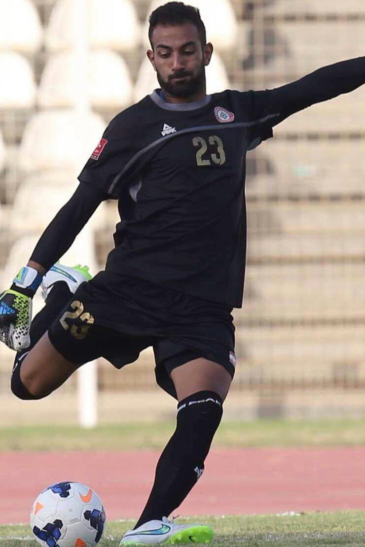 International match lebanon vs syria